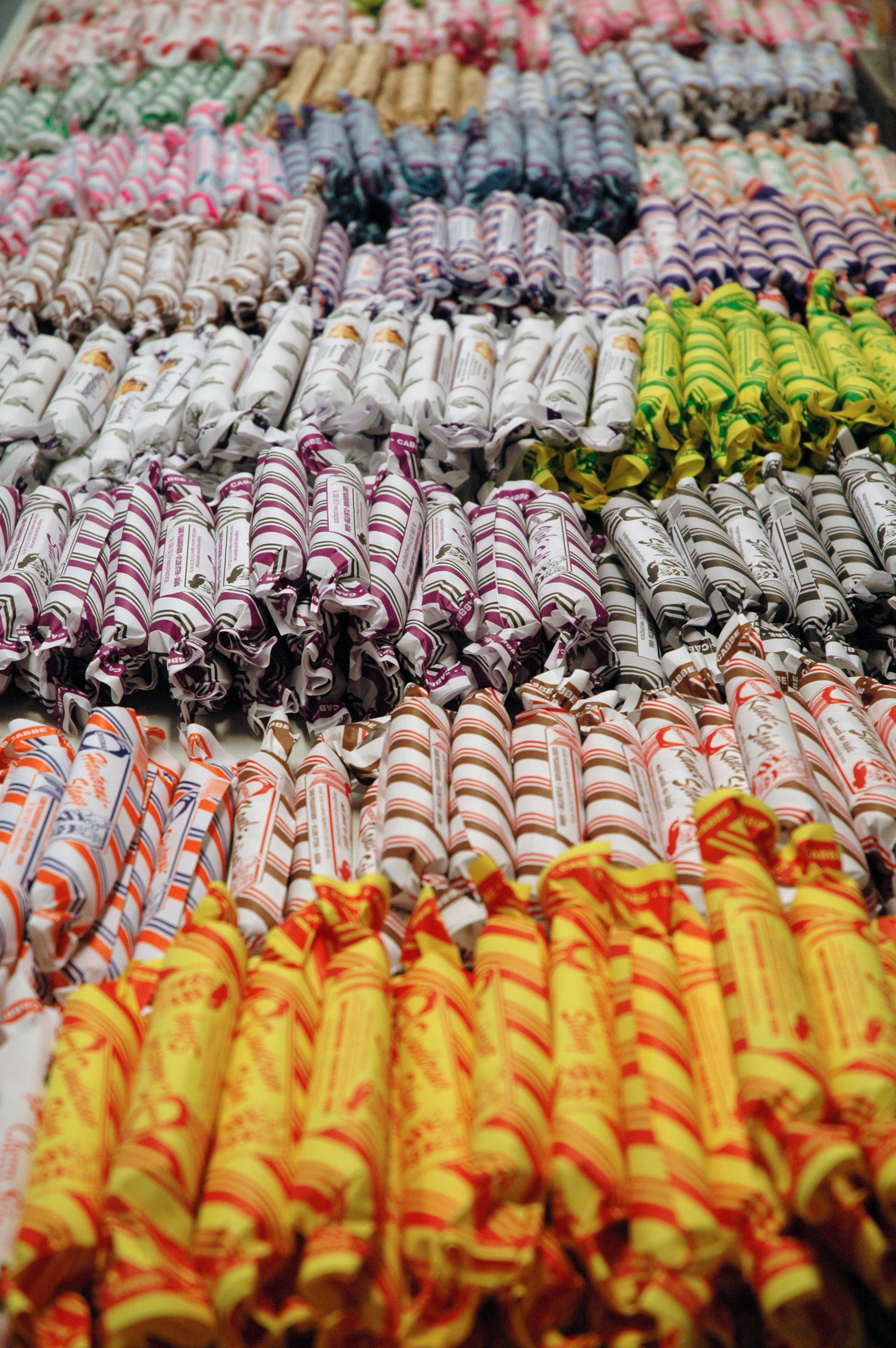 Swedish candy "polkagrisar" for sale in Gränna, the home of the "polkagris".